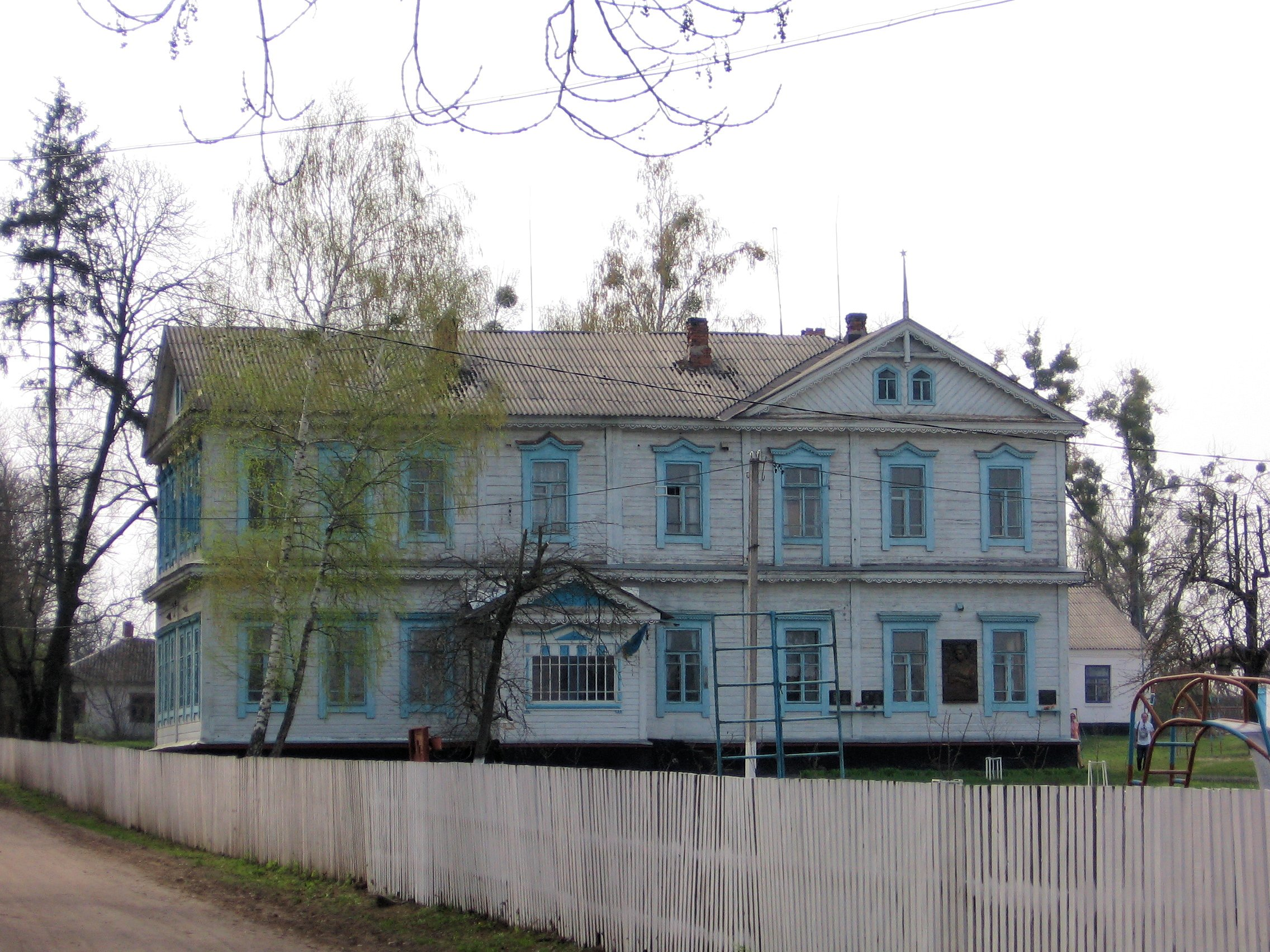 Stavky's school